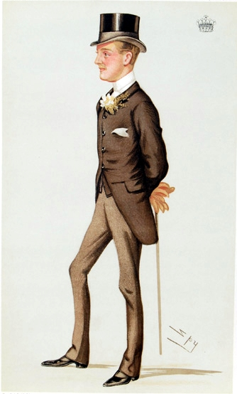 Caricature of Charles Chetwynd-Talbot, 20th Earl of Shrewsbury. Caption read "the premier Earl".